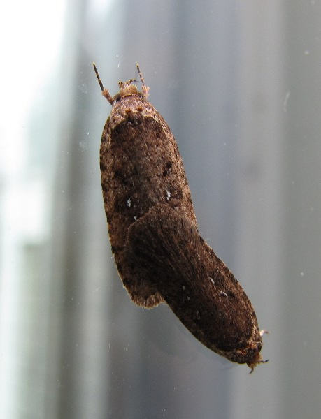 Two Agonopterix heracliana individuals in copula, Kaarina, Finland